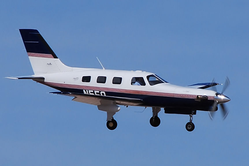 North Las Vegas Airport (IATA: VGT, ICAO: KVGT, FAA LID: VGT) Photo: Tomas Del Coro 3-16-2010